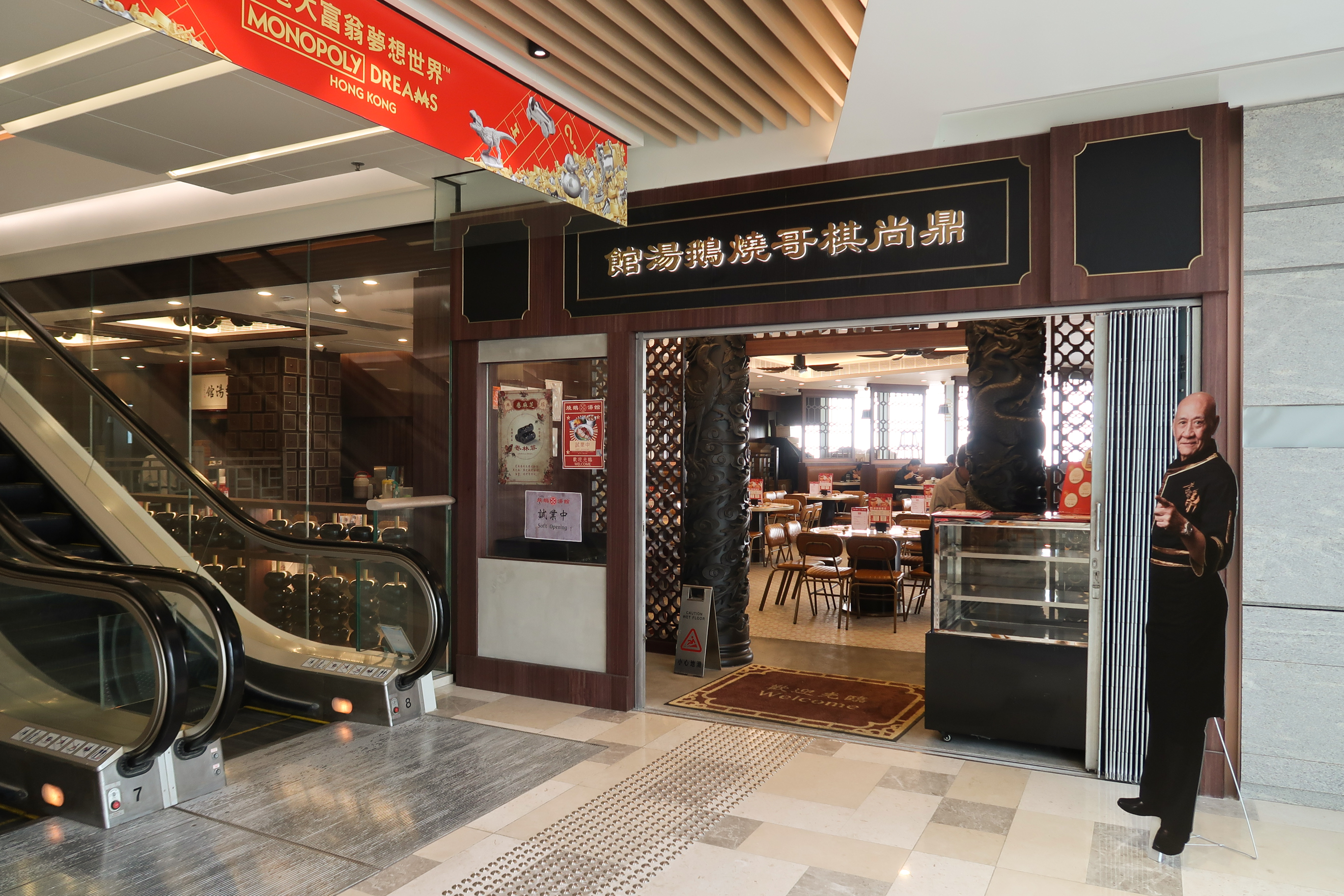 D & K Roasted Goose and Deluxe Soup Restaurant